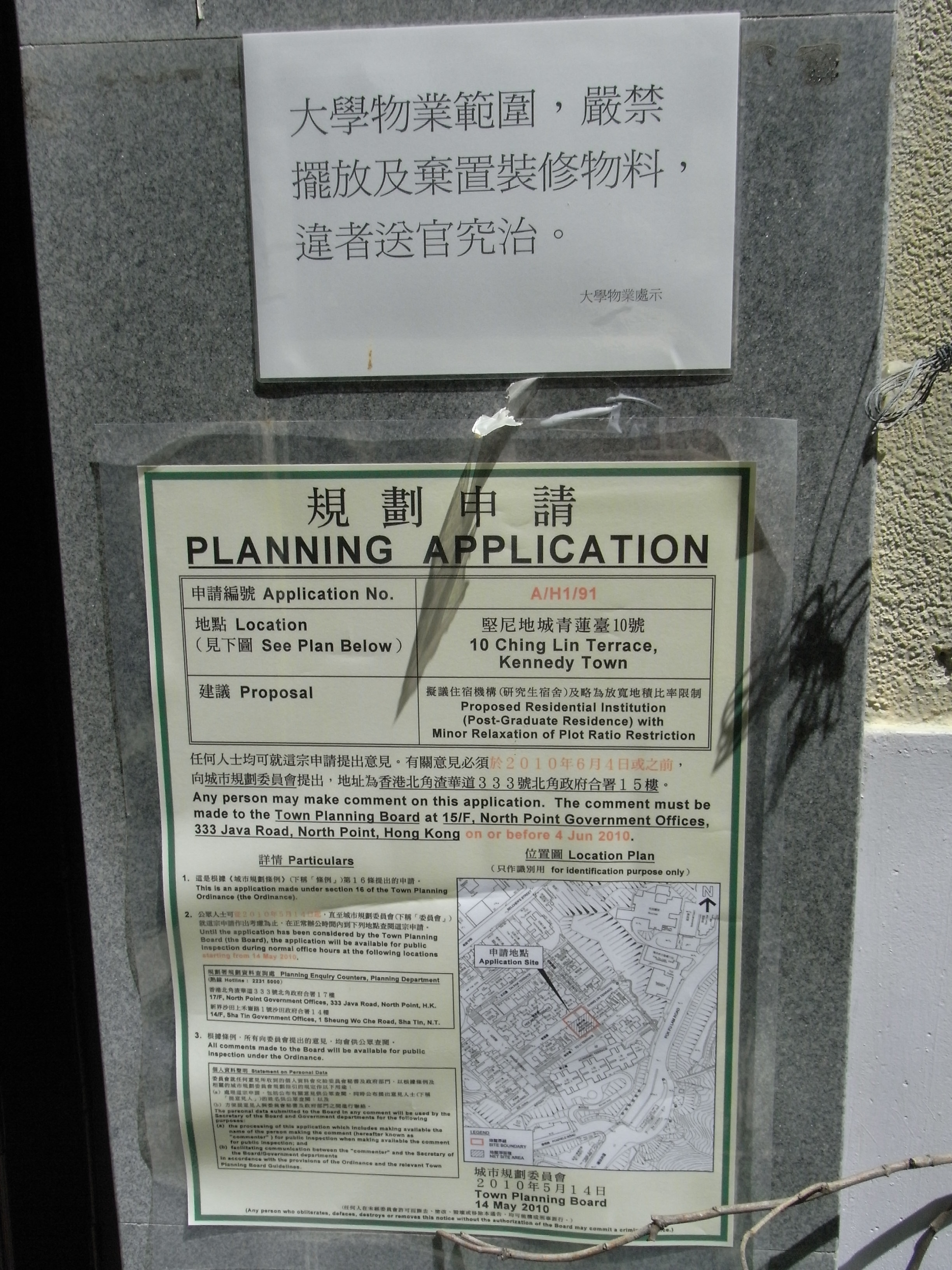 堅尼地城青蓮臺 漢華中學 zh:2010年zh:8月